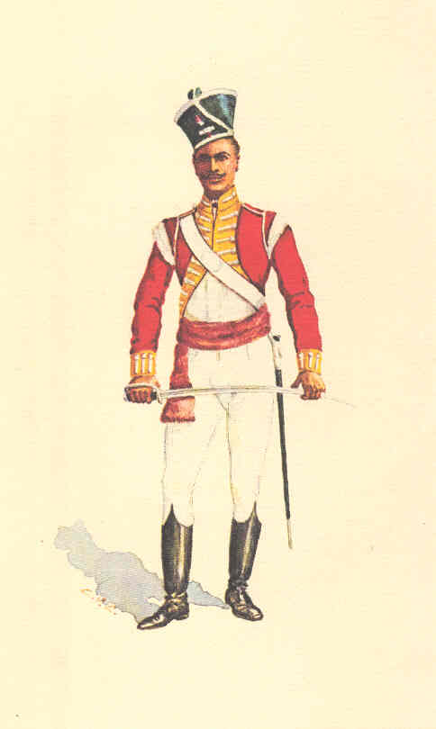 Subadar of the 21st Bengal Native Infantry (1819). Published in An Assemblage of Indian Army Soldiers & Uniforms from the original paintings by the late Chater Paul Chater, Perpetus Press, 1973. First Edition.